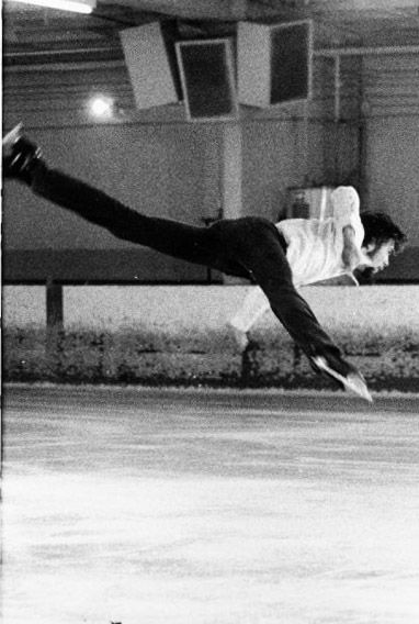 Robert Bradshaw performing a Flying Camel